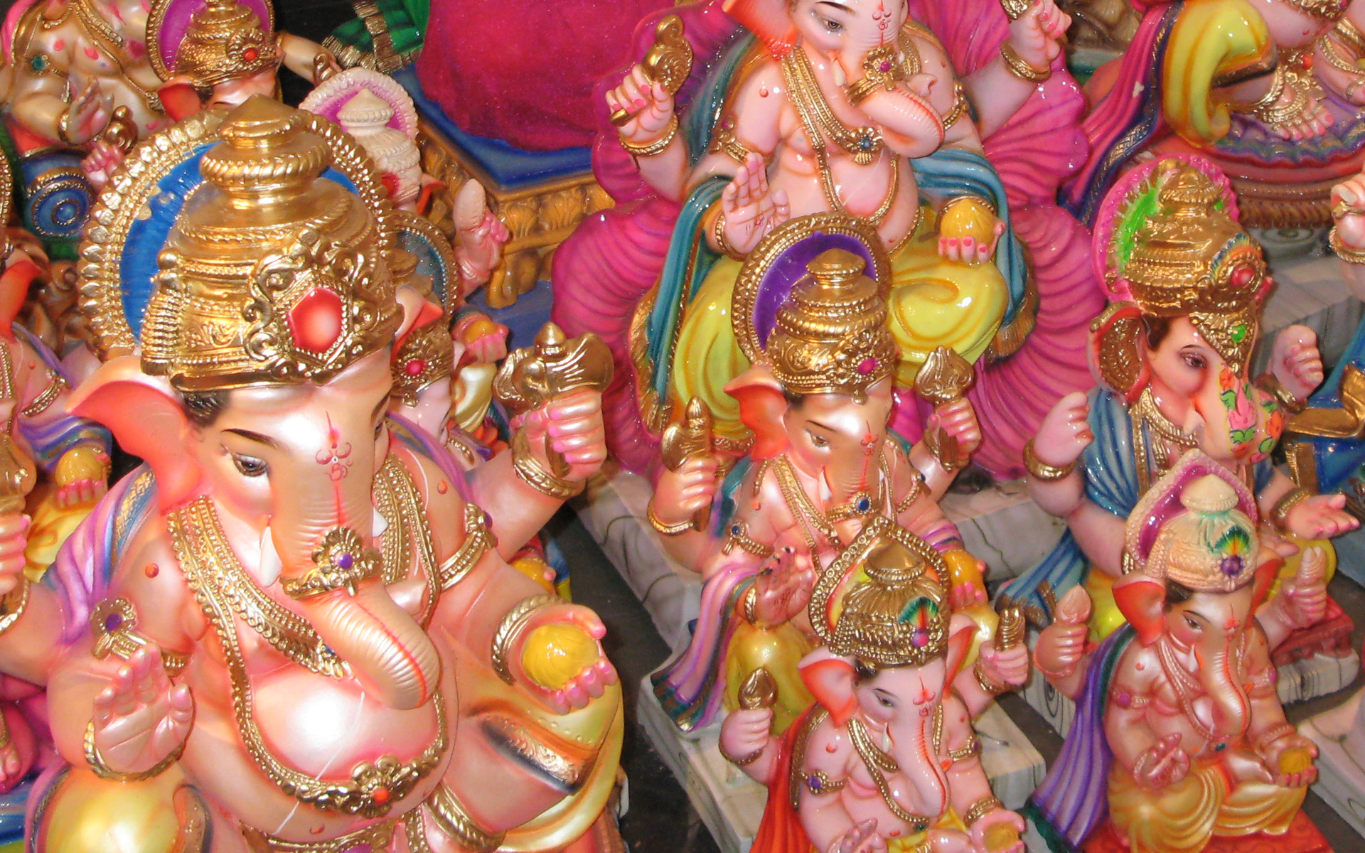 making of ganesh idols in mapusa Ganesh Chaturthi or "Vinayak Chaturthi" is one of the major traditional festivals celebrated by the Hindu community. It is observed in the Hindu calendar month of Bhadrapada, starting on the shukla chaturthi (fourth day of the waxing moon period). Typically the day falls sometime between August 20 and September 15.